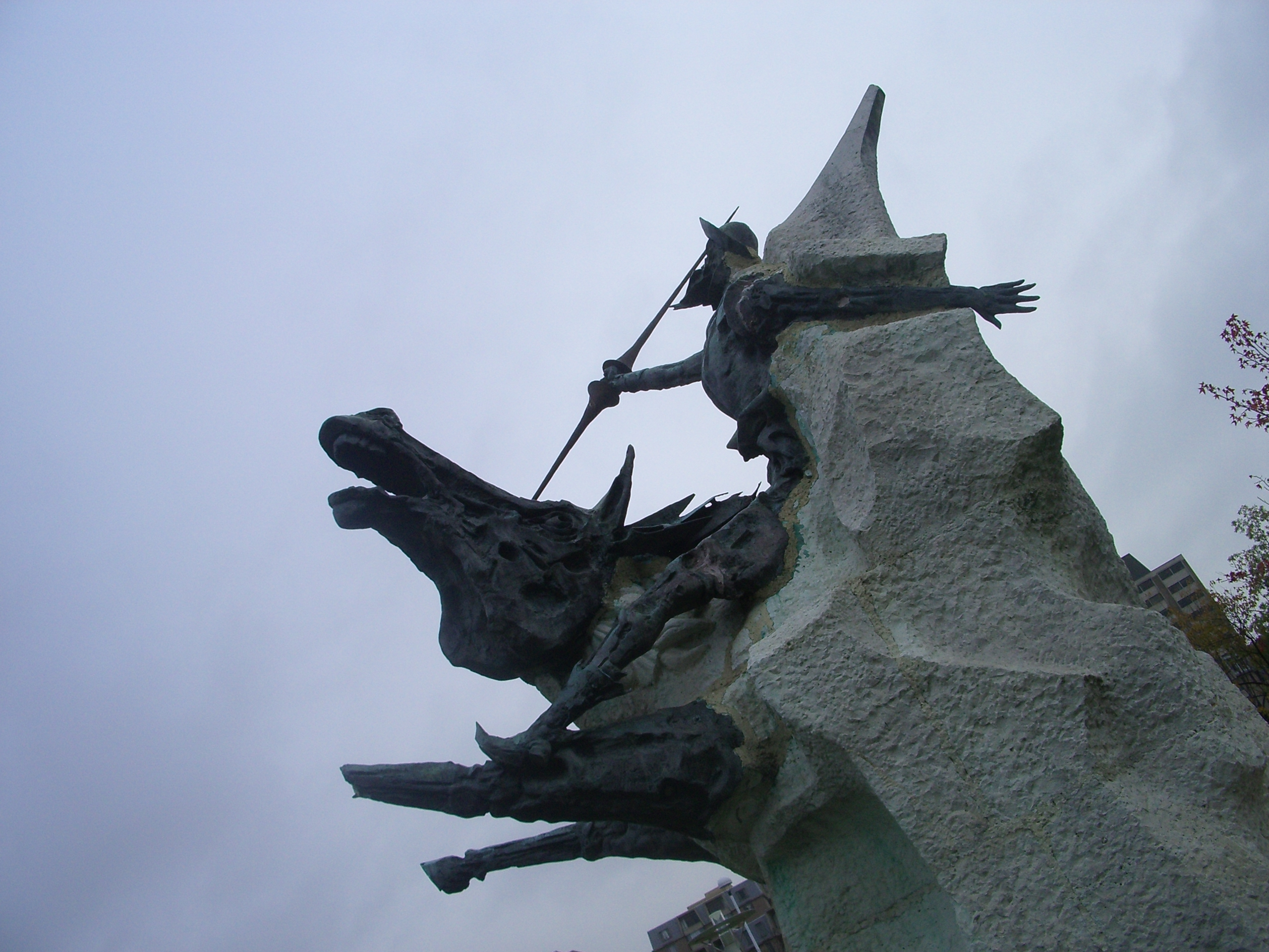 Impressionistic(?). Well, it impressed me.